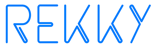 Rekky logo